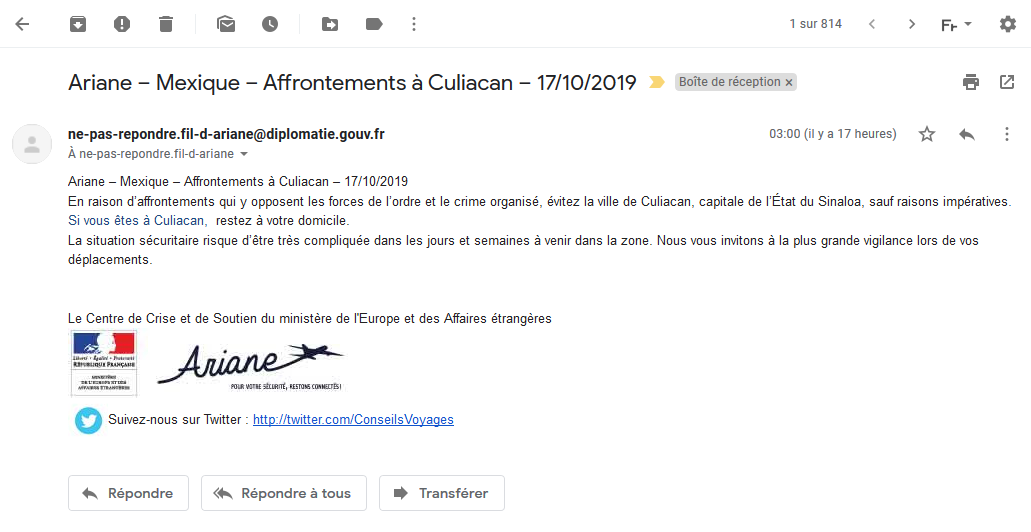 Email sent by the Crisis and Support Centre of the french Ministry of Europe and Foreign Affairs to declared on the Ariane website French nationals present in Mexico, to prevent them from travelling to Culiacán during the violent fighting between Mexican law enforcement and the Sinaloa Cartel on 17 October 2019